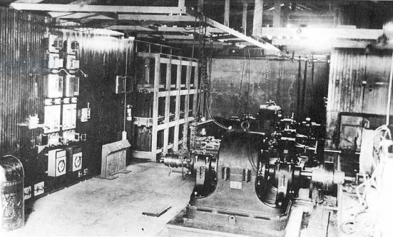 Interior of the San Antonio Light and Power Company's powerhouse circa 1892 date QS:P,+1892-00-00T00:00:00Z/9,P1480,Q5727902, featuring its Westinghouse dynamo at center.